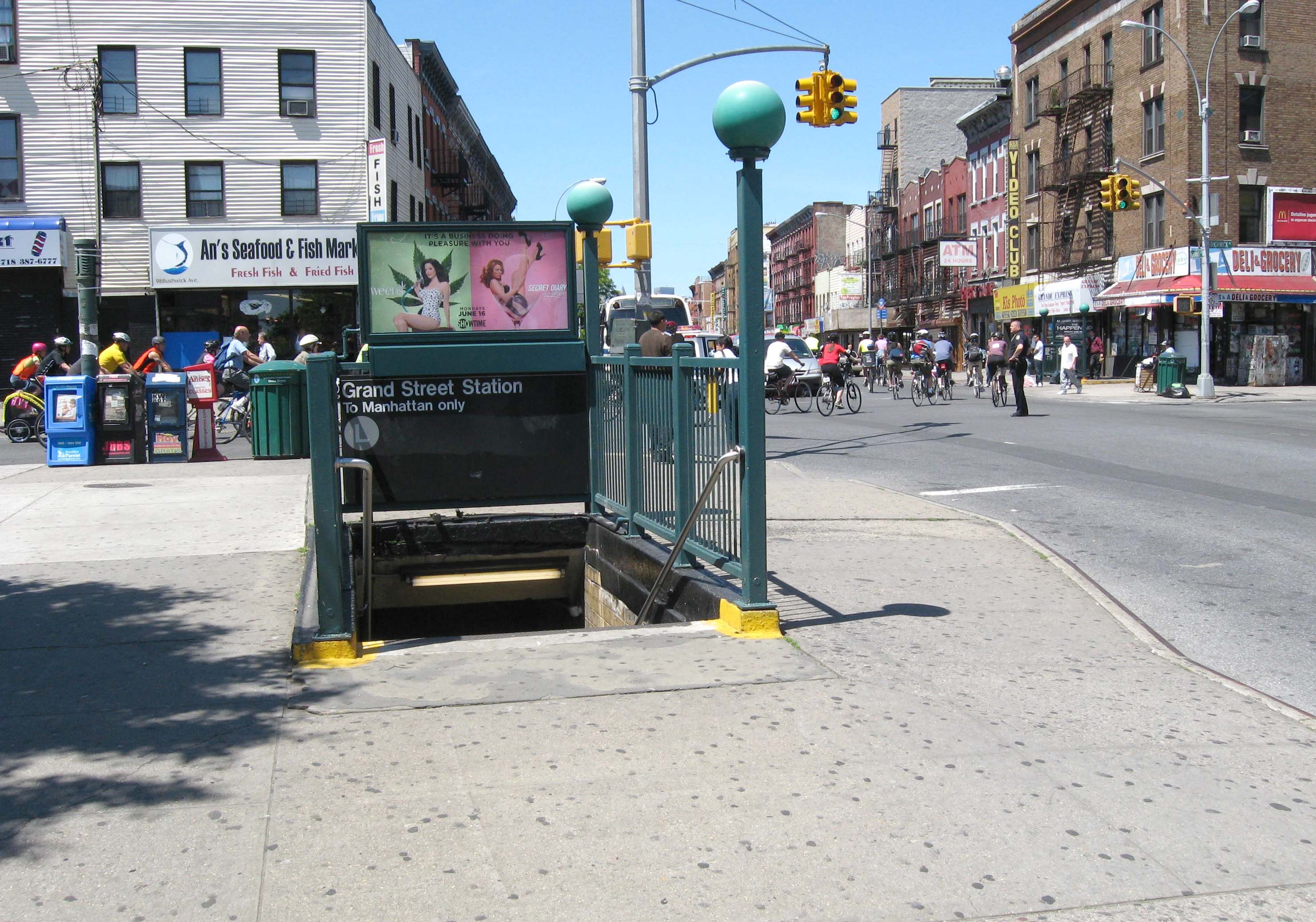 Looking west along Grand Street at Grand Street (BMT Canarsie Line) westbound street stair as Tour de Brooklyn 2008 comes north on Bushwick Avenue and turns left.